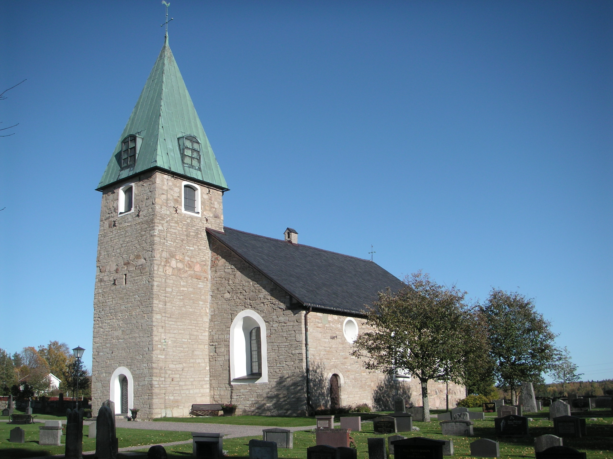 The church in Edsberg in the municipality Lekeberg in Sweden